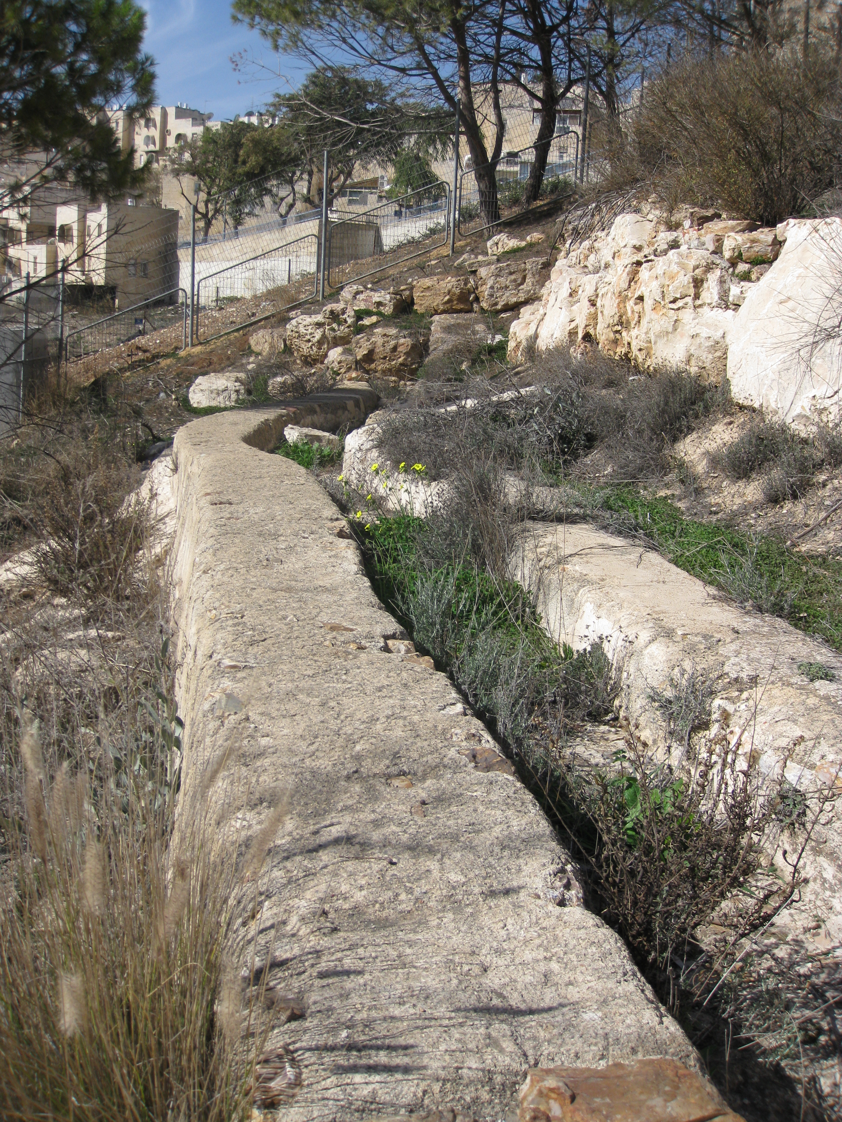 The Lower Aqueduct before the enterance to the tunnel